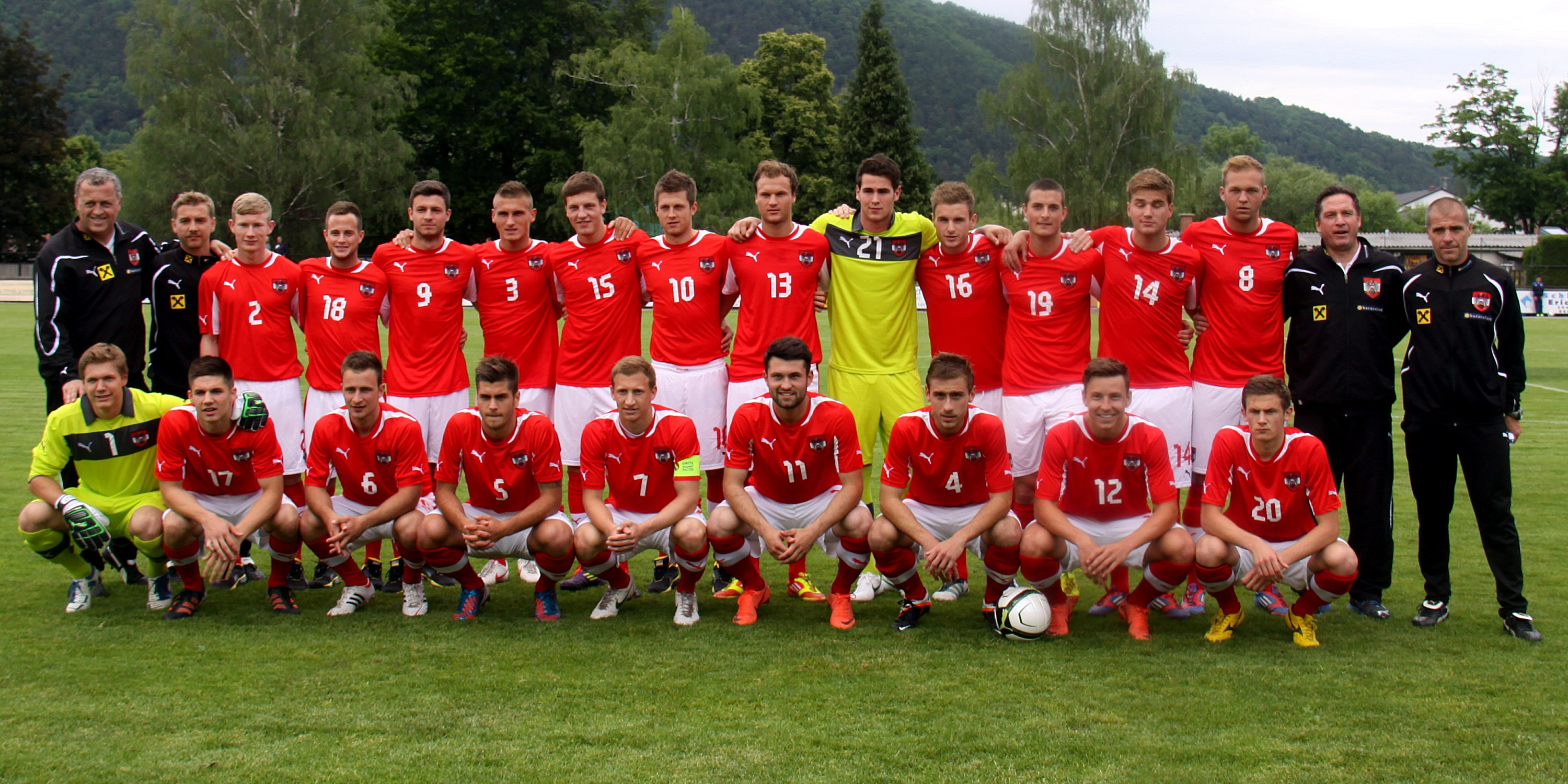 Testmatch of the austrian national under-21 football team (age group 1990) vs SV Gloggnitz at 2012-06-02 in the stadium of Gloggnitz – The photo shows en: (en:), en: (en:) and en: (en:). Object location47° 39′ 53.73″ N, 15° 55′ 53.42″ E